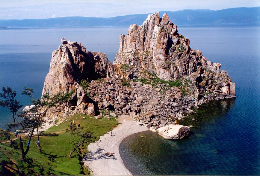 Olkhon Island, Shaman Rock near Khuzhir